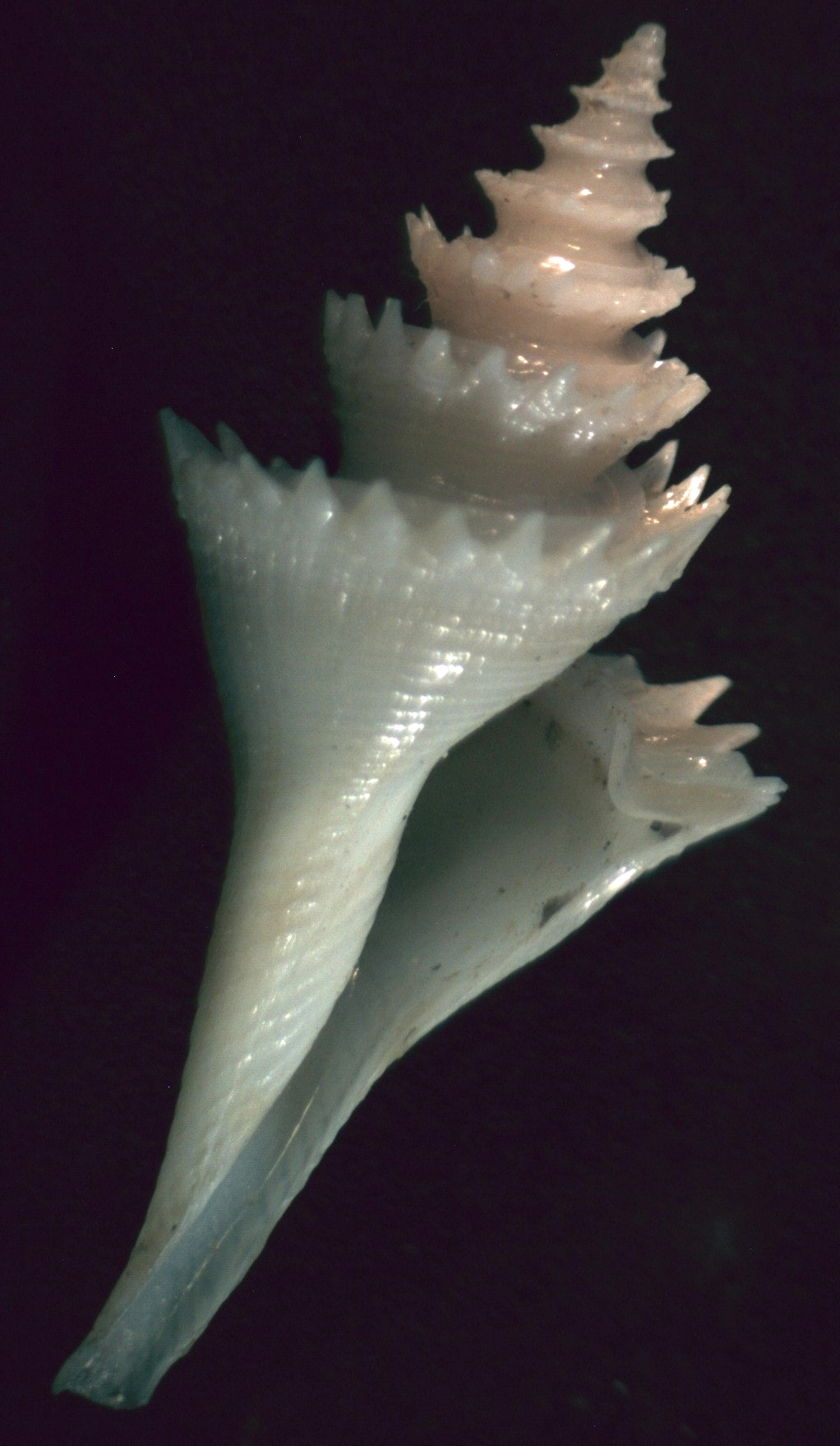 Cochlespira radiata (Dall, 1889) ; Barbados